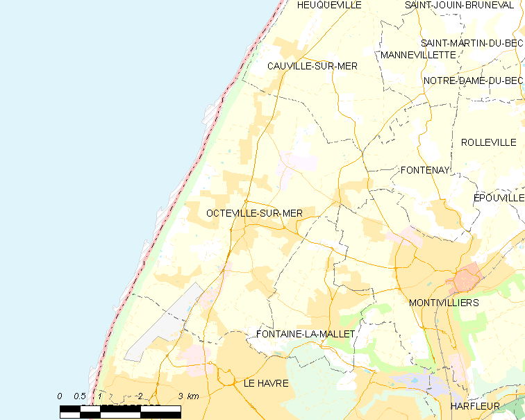 Map of French municipality Octeville-sur-Mer